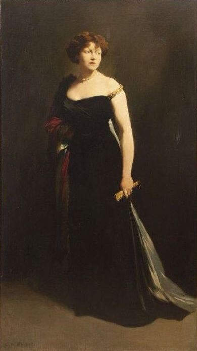 Glyn Warren PHILPOT (1884 - 1937) - Portrait of Mrs Emile MOND, 1910